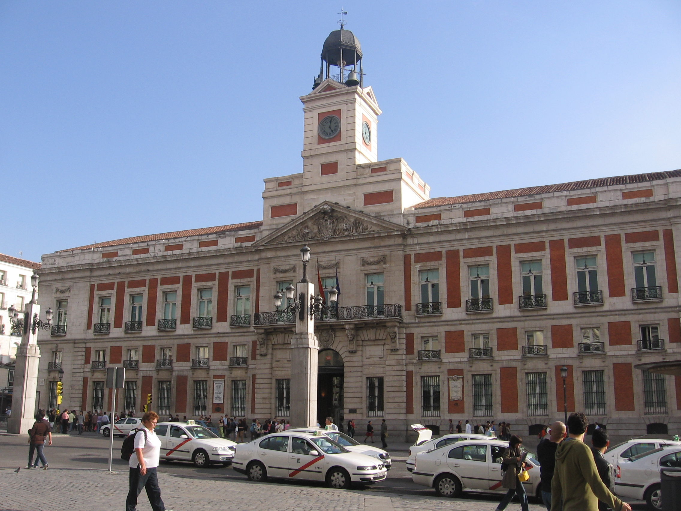 Puerta Del Sol, Madrid: the Post office.